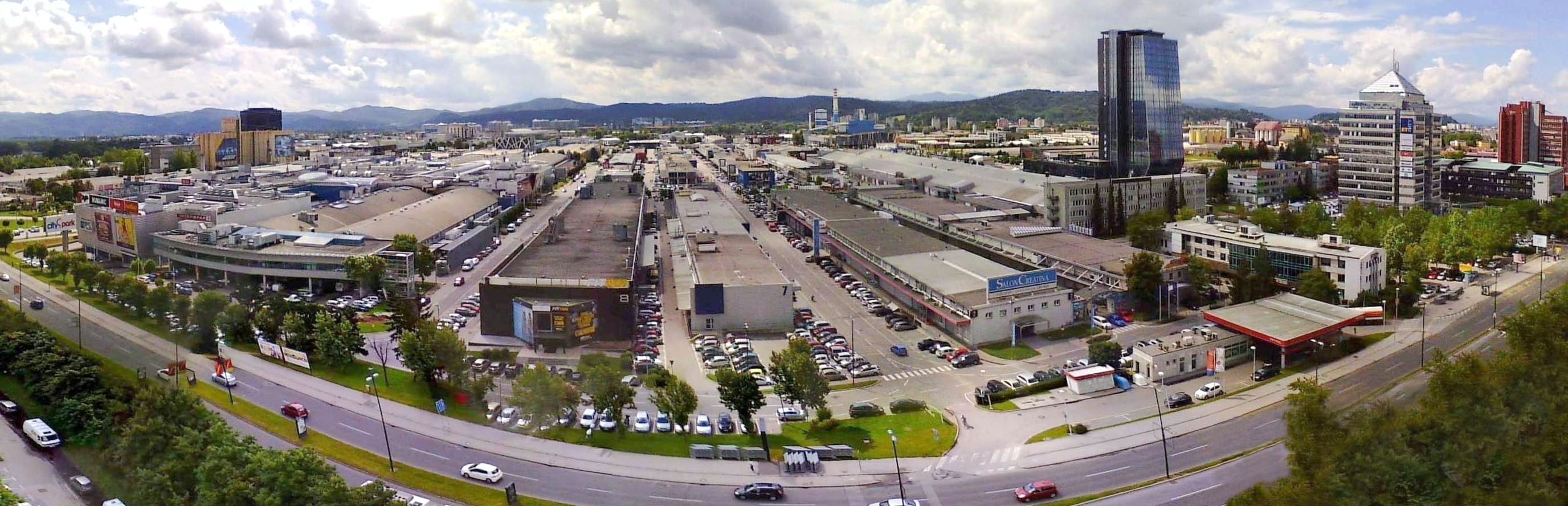 A panoramic image of BTC City from the north